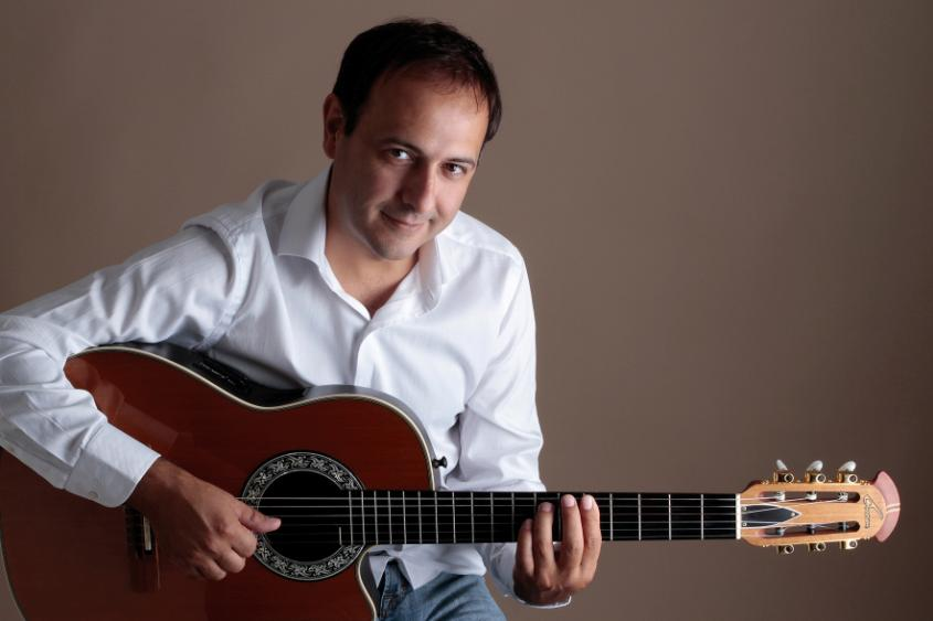 Studio Ph Carlos Mancinelli